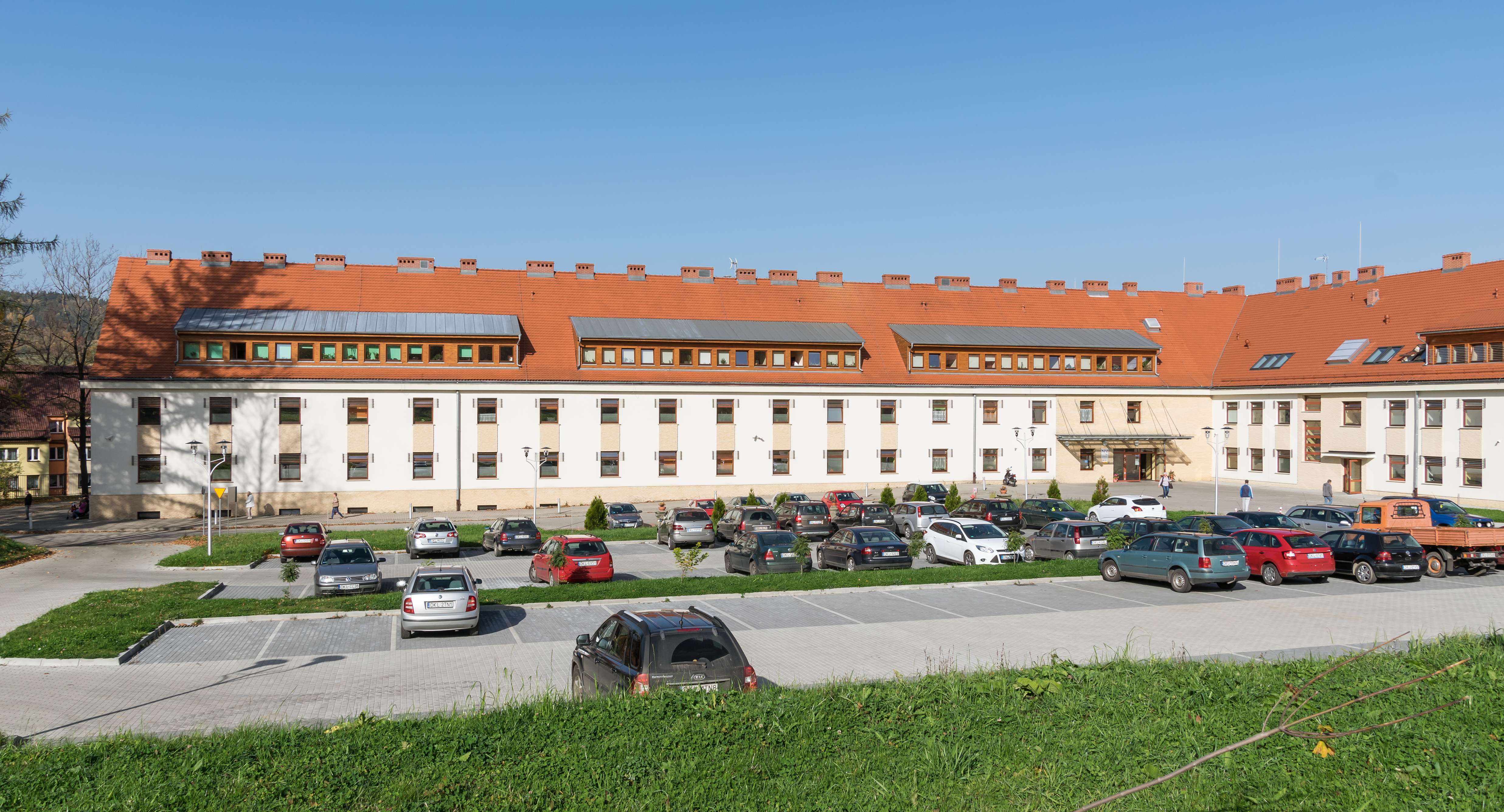 Psychiatric hospital in Stronie Śląskie